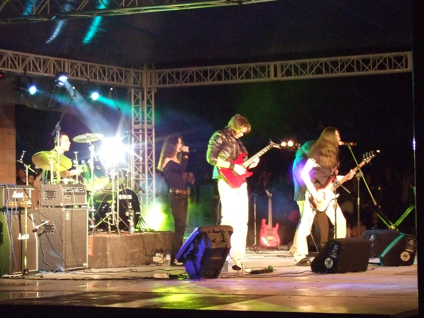 Ambehr at the Rock the Borders open-air metal festival at Children's Park in Yerevan, Armenia. Ambehr is a heavy/death metal band.